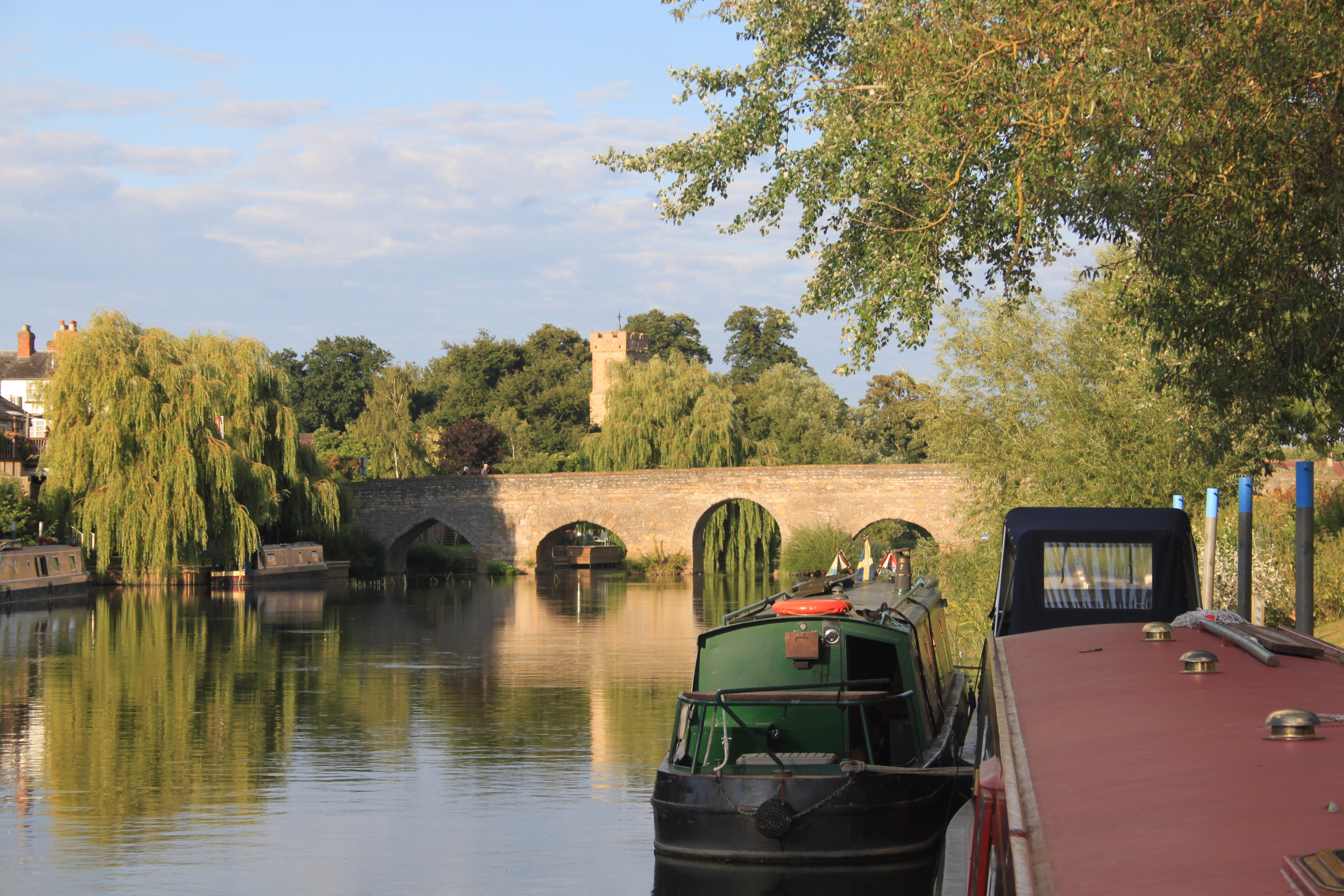 BIDFORD BRIDGE Wikidata has entry Q17528376 with data related to this building.